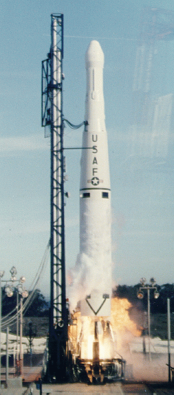 Launch vehicle Thor Able Star with satellites Transit 5BN-2 and Transit 5E-3